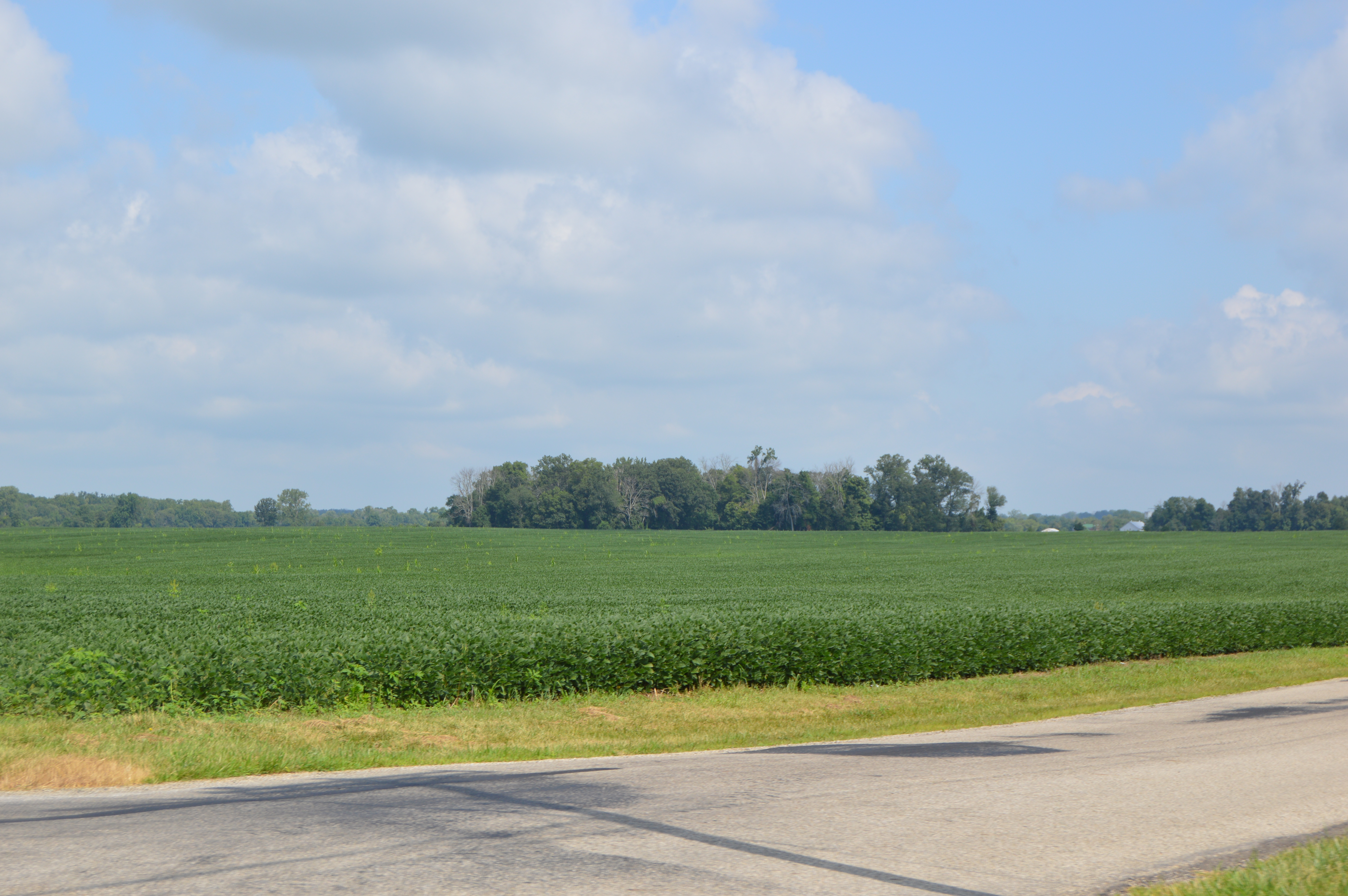 Soybean fields, seen looking northwest from the junction of Bader and Basil Western Roads in Liberty Township, Fairfield County, Ohio, United States.